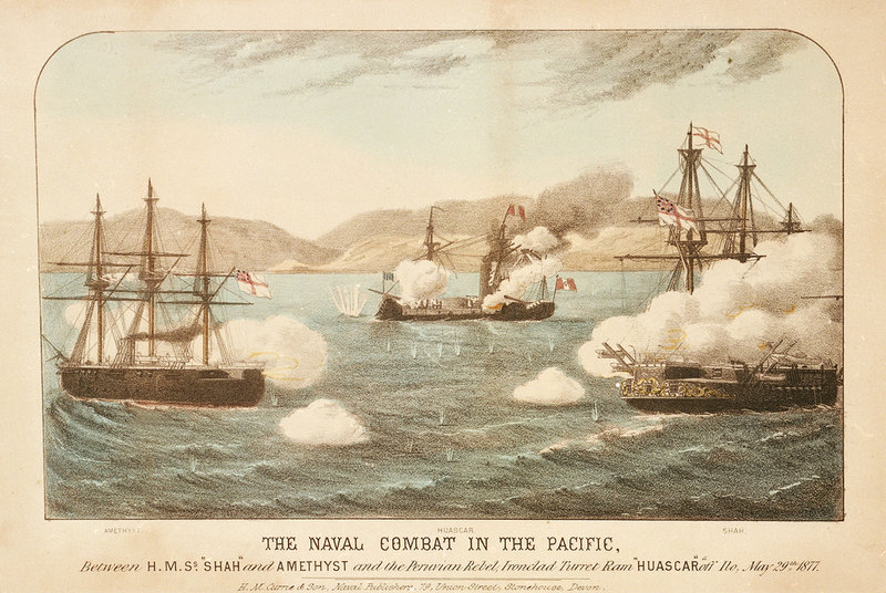 The Naval Combat in the Pacific, Between H.M.S.s "SHAH" and AMETHYST and the Peruvian Rebel Ironclad Turret Ram "HUASCAR" off No, May 29th 1877.